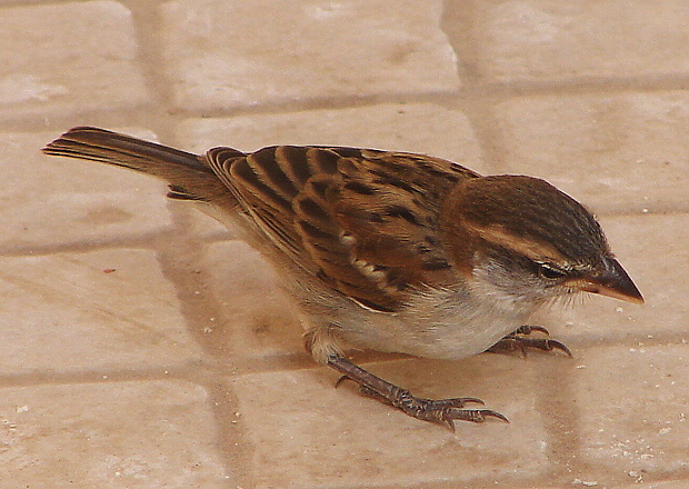 Female Iago Sparrow at Santa Maria, Sal Island